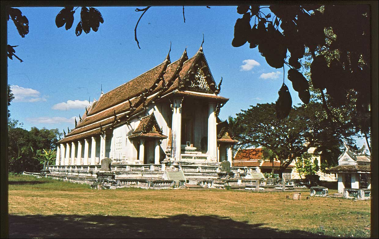 Ubosot of Wat Na Phra Men, Ayutthaya Thailand.